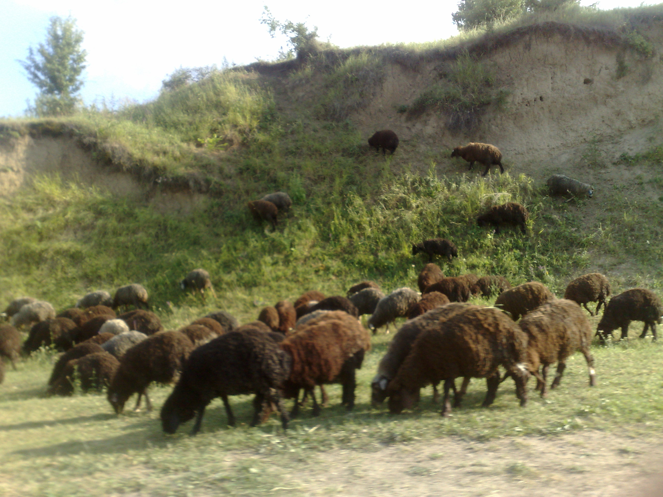 Sheep with black wool on road near villages Mosesgegh and Aygepar. Tavush province of Armenia.